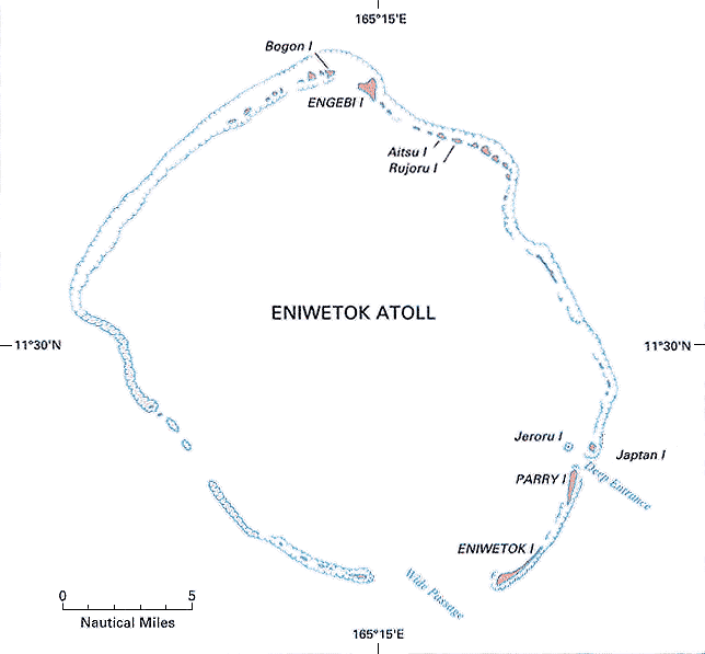 Map of Enewetak, adapted from Battle of Eniwetok map.png - some artifacts removed, and WW2 Battle specific information removed.